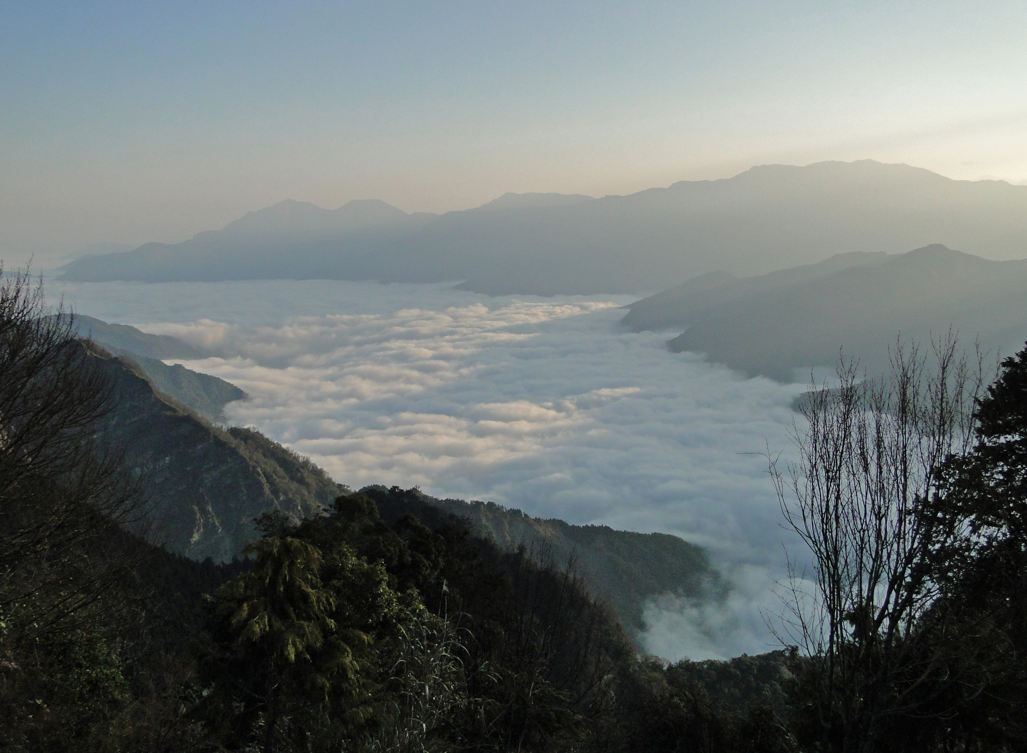 The Sea of clouds seen from Jhushan Mountain, Taiwan